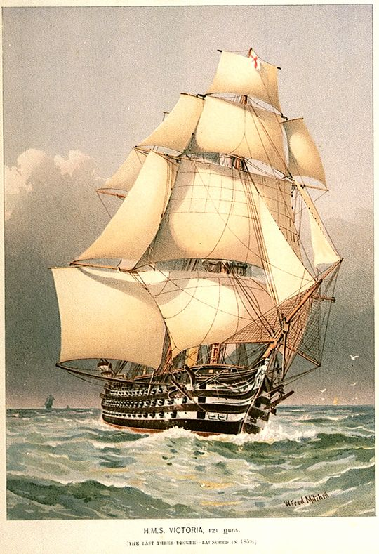 Painting of HMS Victoria (1859).